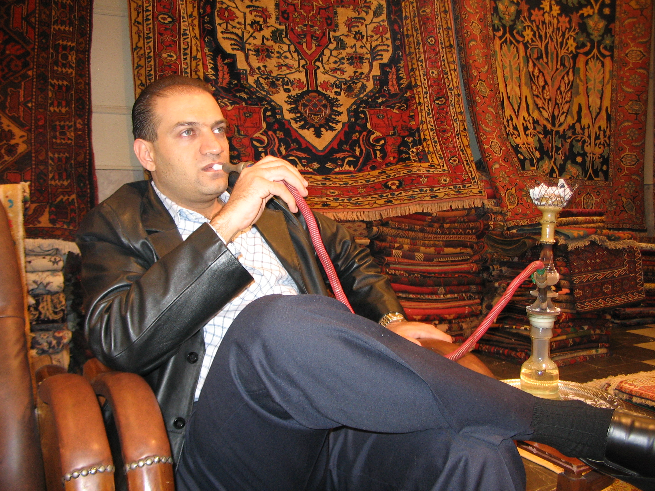 A carpet trader , son and grandson of carpet traders. kualalumpur AV.next to aliqapou hotel charbagh abbasi ST. tel: 00989131187083 Esfahan, Iran.